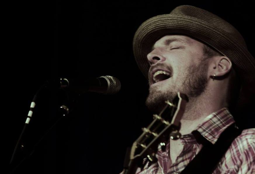 Jason White performing in Nashville, TN in 2013.